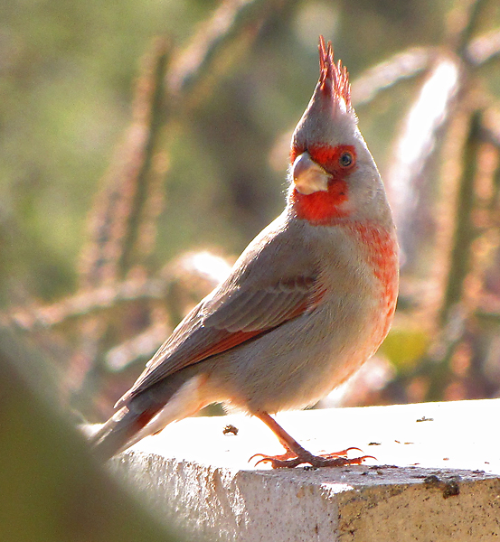 Cardinalis sinuatus Tucson, Arizona